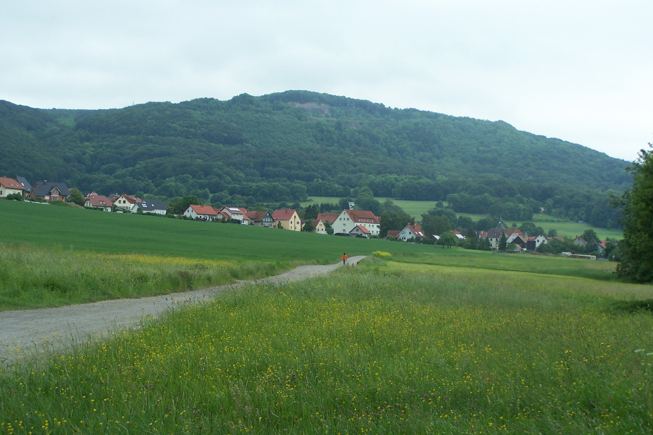 The Fischbach village and the mount Umpfen.